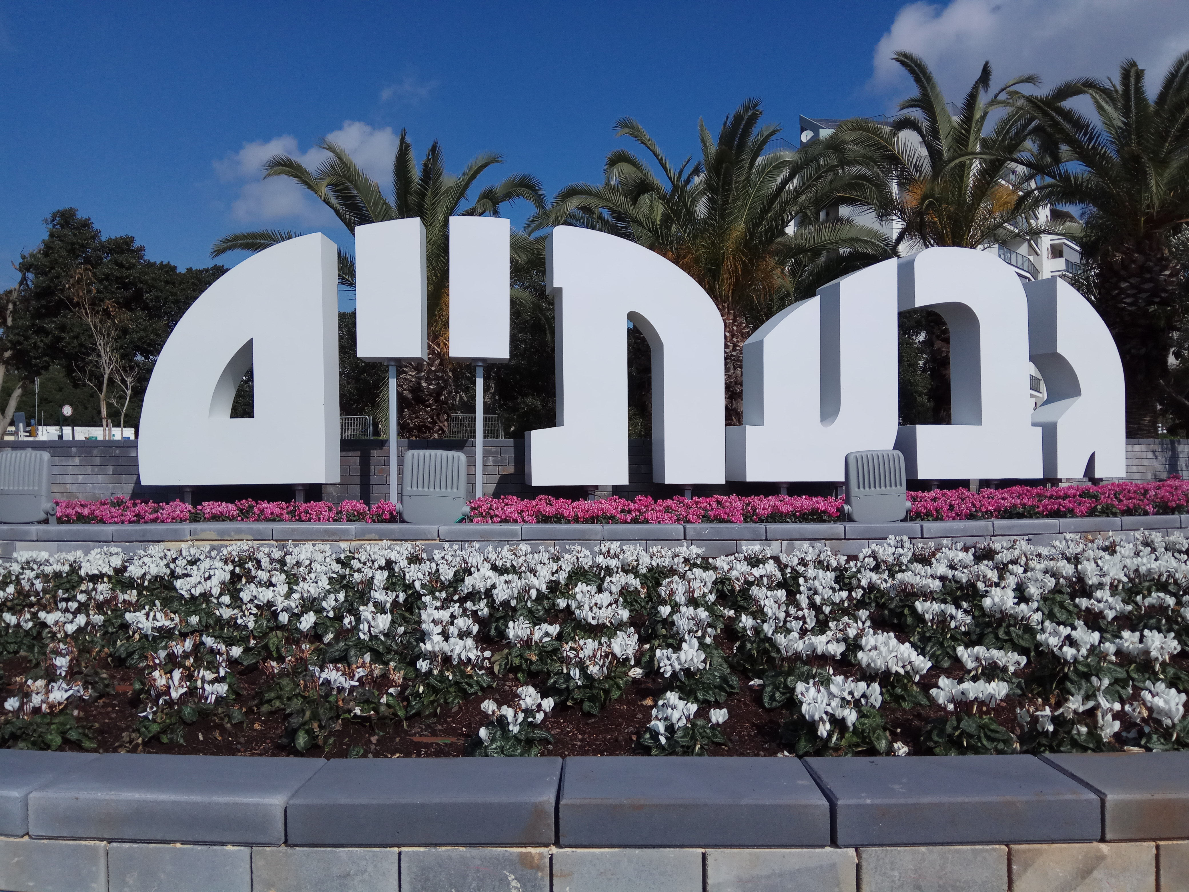 The entrance to Givatayim